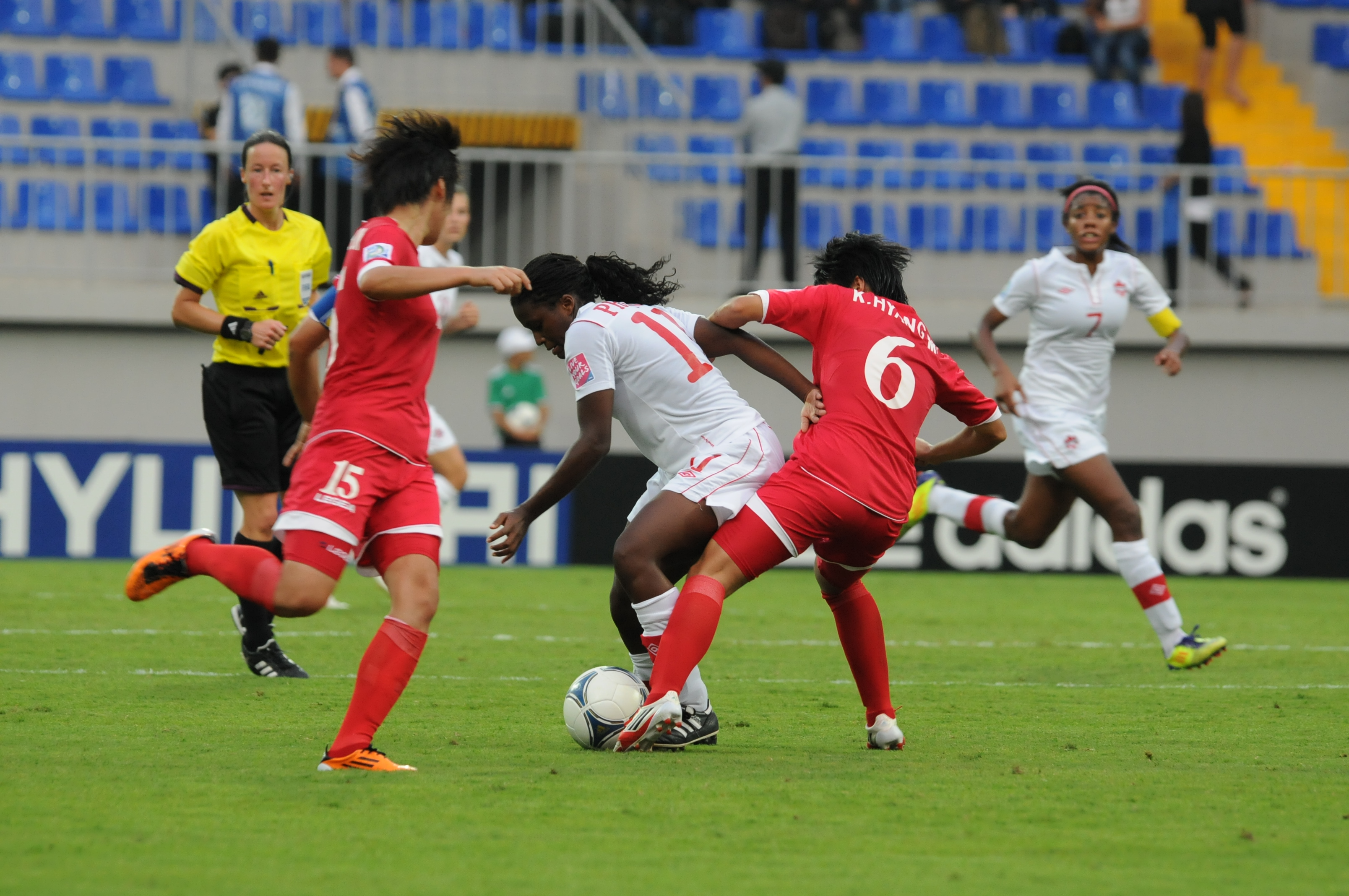 FIFA U-17 Women's World Cup 2012